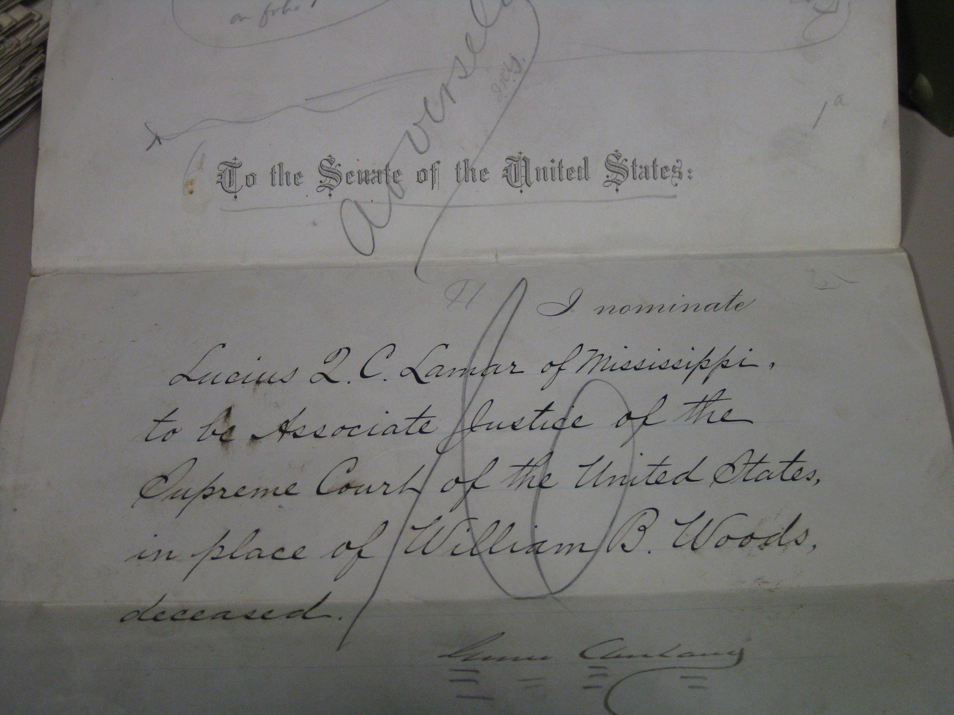 Grover Cleveland's nomination of Lucius Q.C. Lamar II to serve on the U.S. Supreme Court. Courtesy of the National Archives and Records Administration.